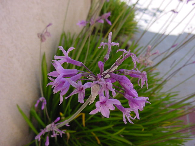 Tulbaghia violacea taken by User:CatherineMunro